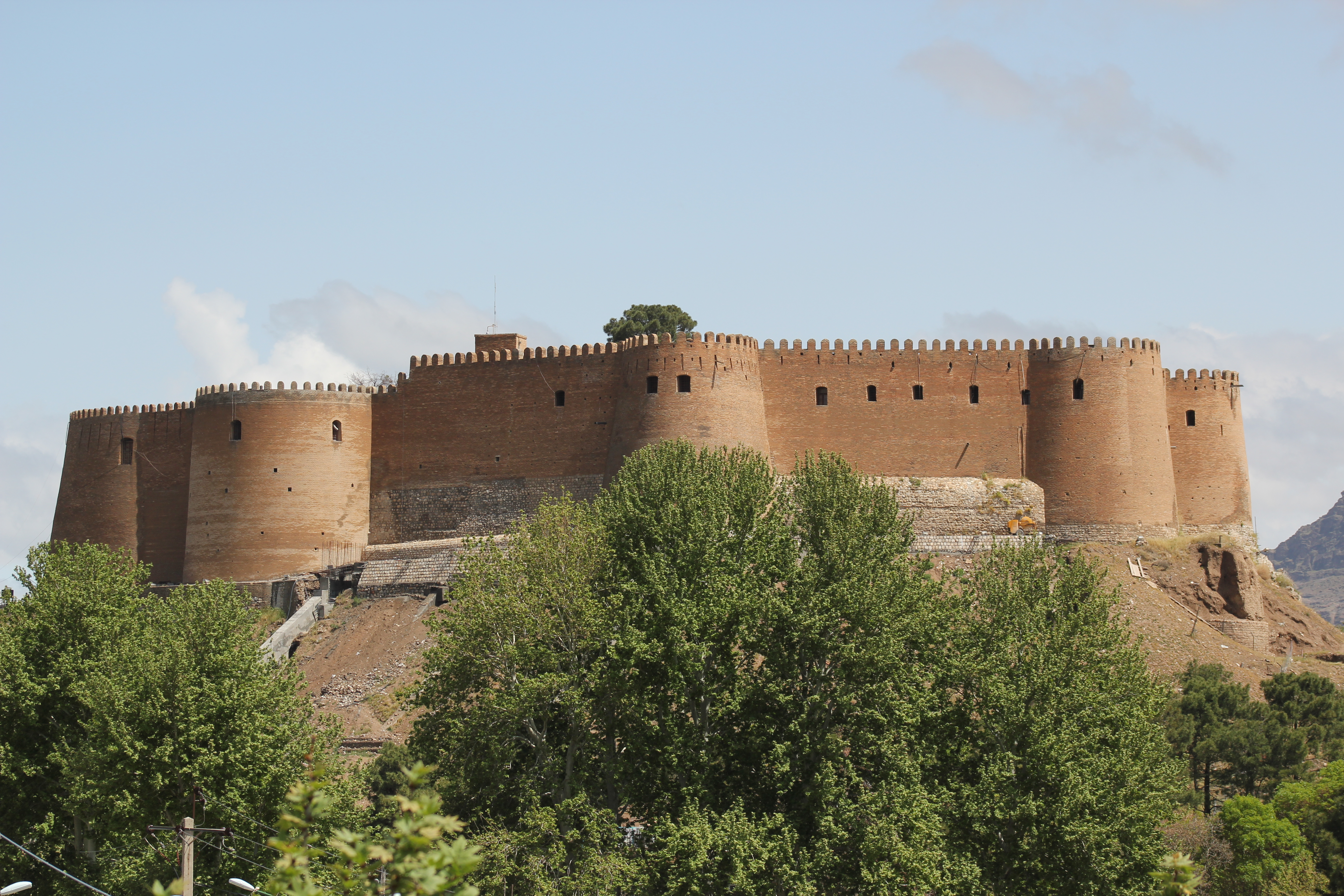 Falak-ol-Aflak Castle (in Persian: دژ شاپورخواست Dež-e Shāpūr-Khwāst, in ancient times known as Dežbār as well as Shāpūr-Khwāst) is a castle situated on the top of a large hill with the same name within the city of Khorramabad, the regional capital of Lorestan province, Iran. This gigantic structure was built during the Sassanid era